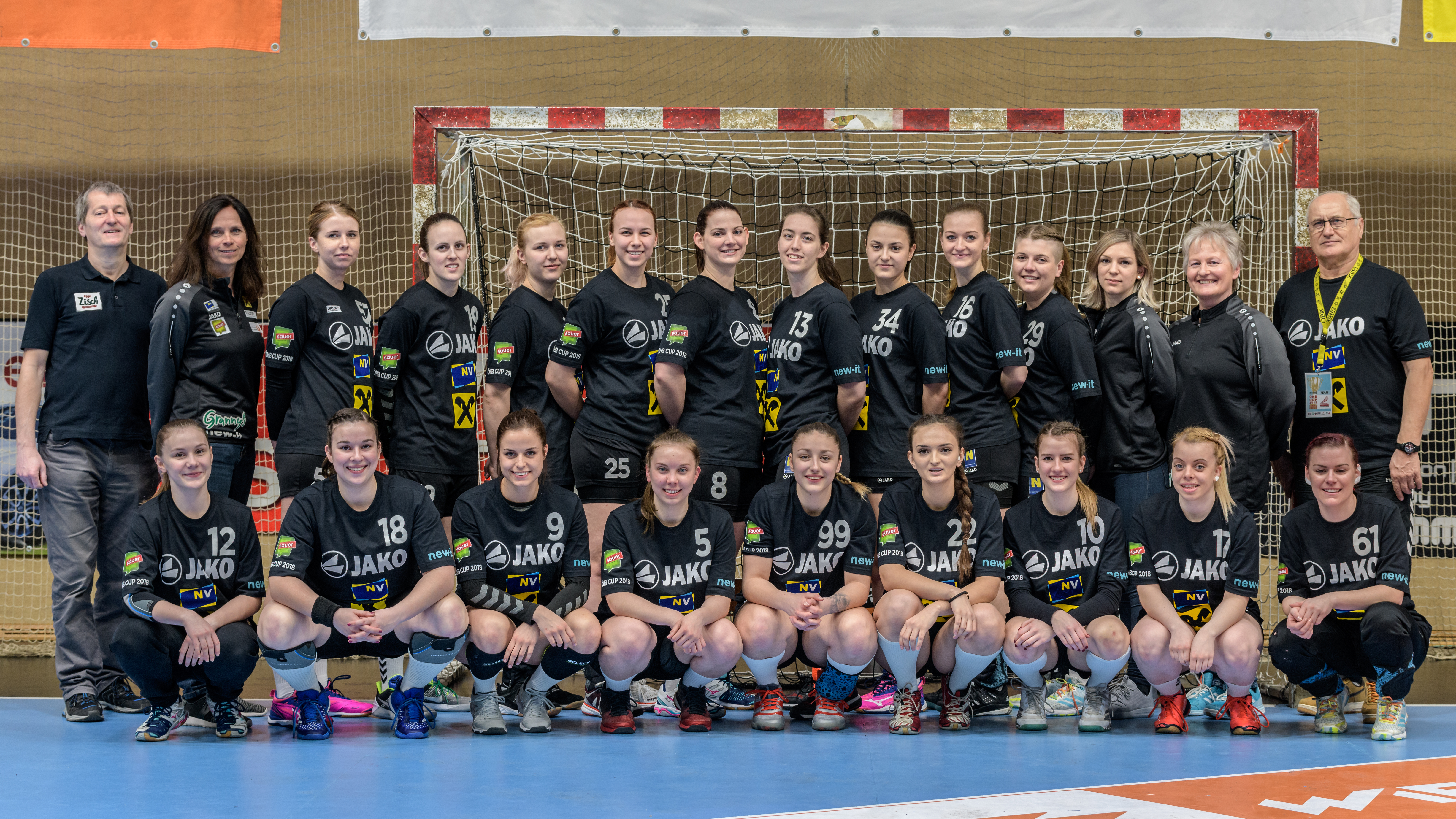 OEHB Cup 2018 Final Ladies, UHC Müllner Bau Stockerau vs. Union St. Pölten 2018/03/31. Picture shows Team of Union St. Pölten